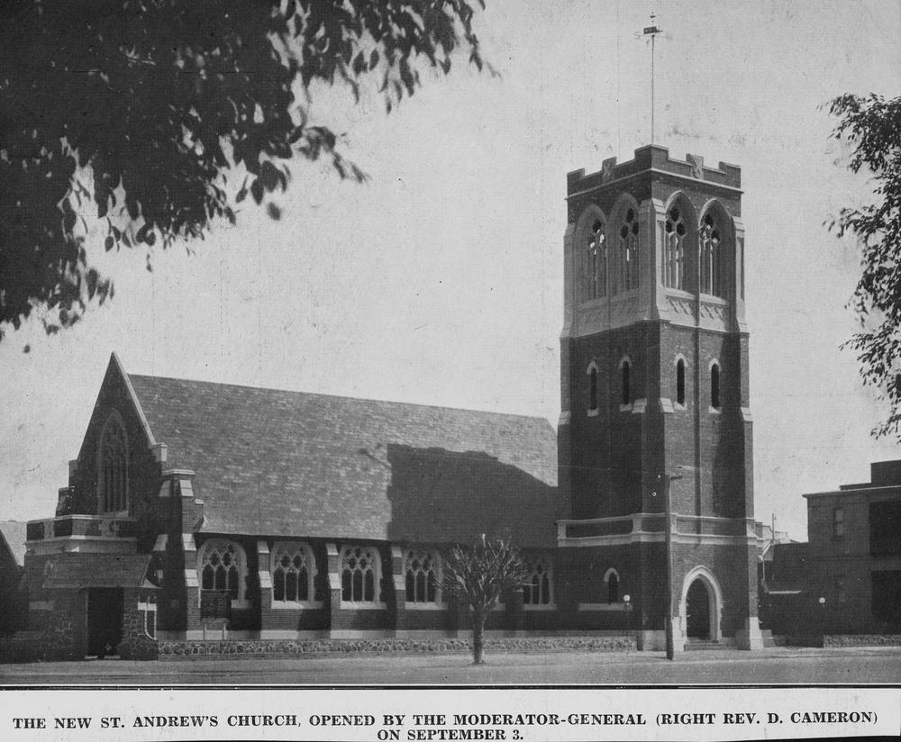 View of St. Andrew's Presbyterian Church, Bundaberg, 1932